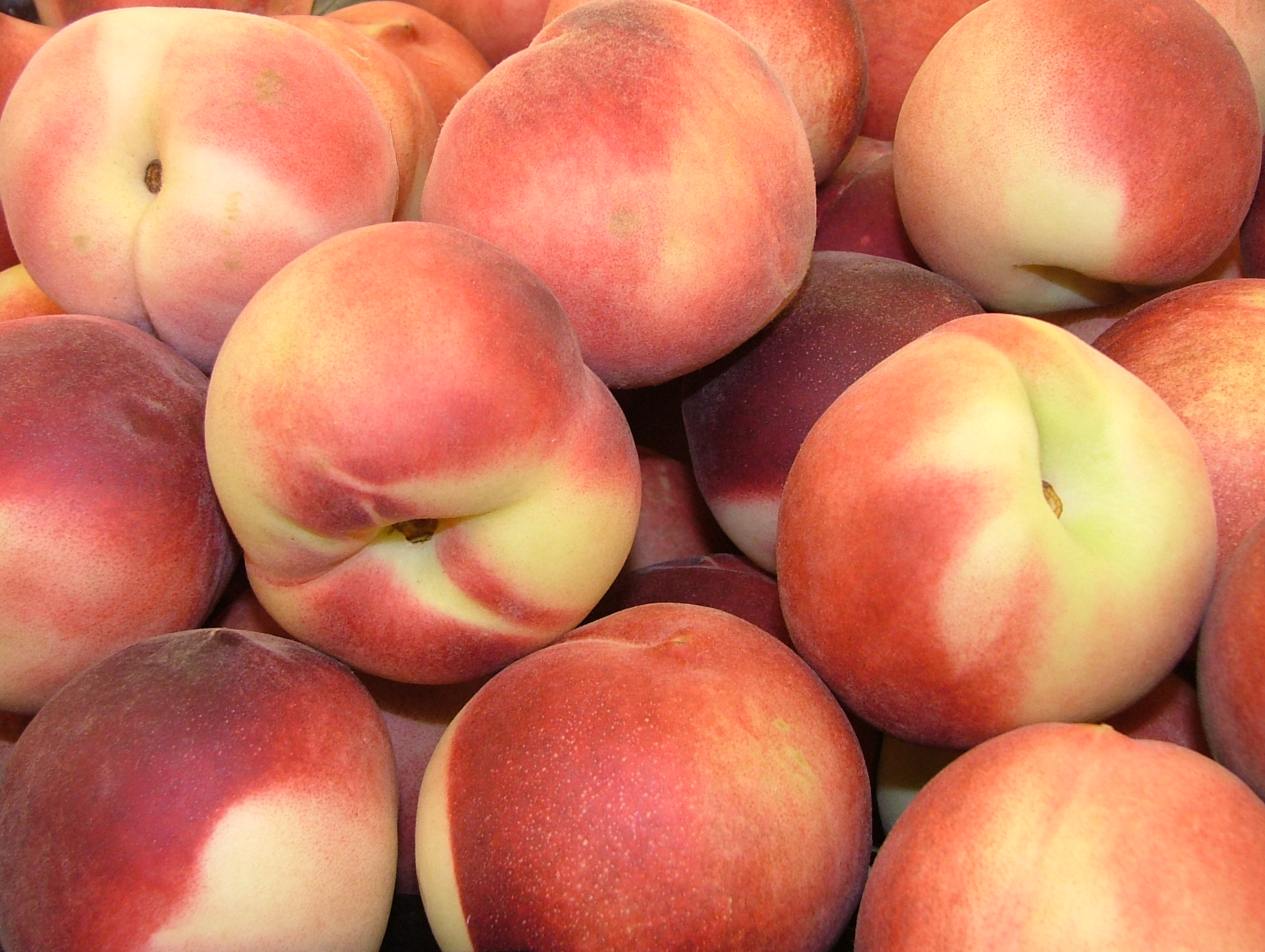 A photograph of some peaches (Prunus persica en ).